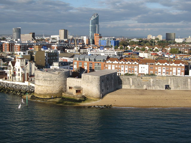 Point Battery, Portsmouth Round and square towers built to defend the mouth of Portsmouth Harbour.